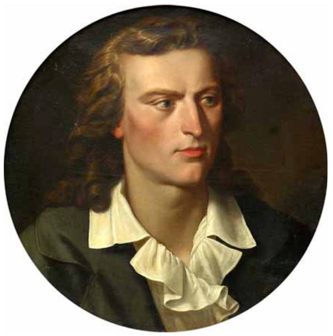 Posthumous portrait of Friedrich Schiller